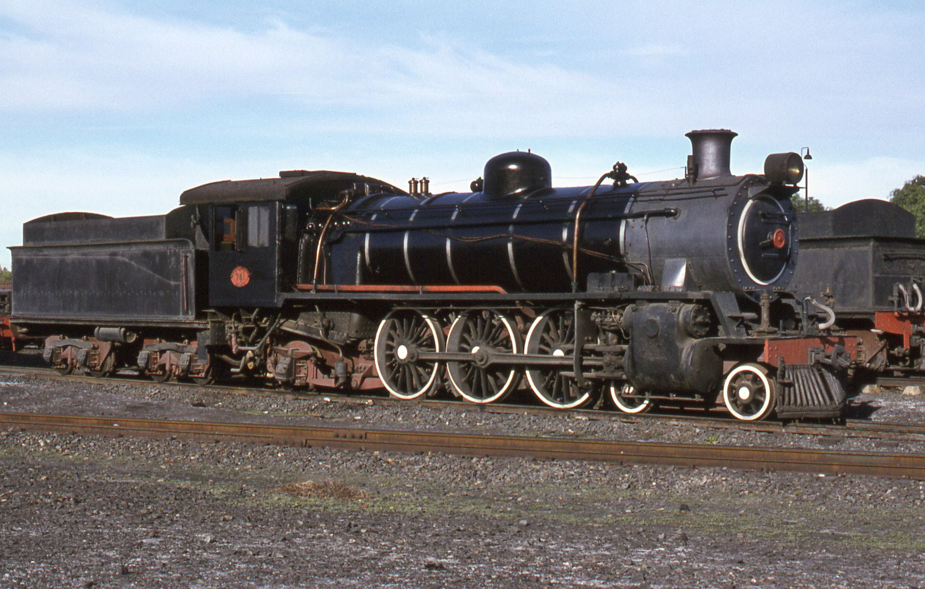 SAR Class 5R 781 (4-6-2) Location: De Aar